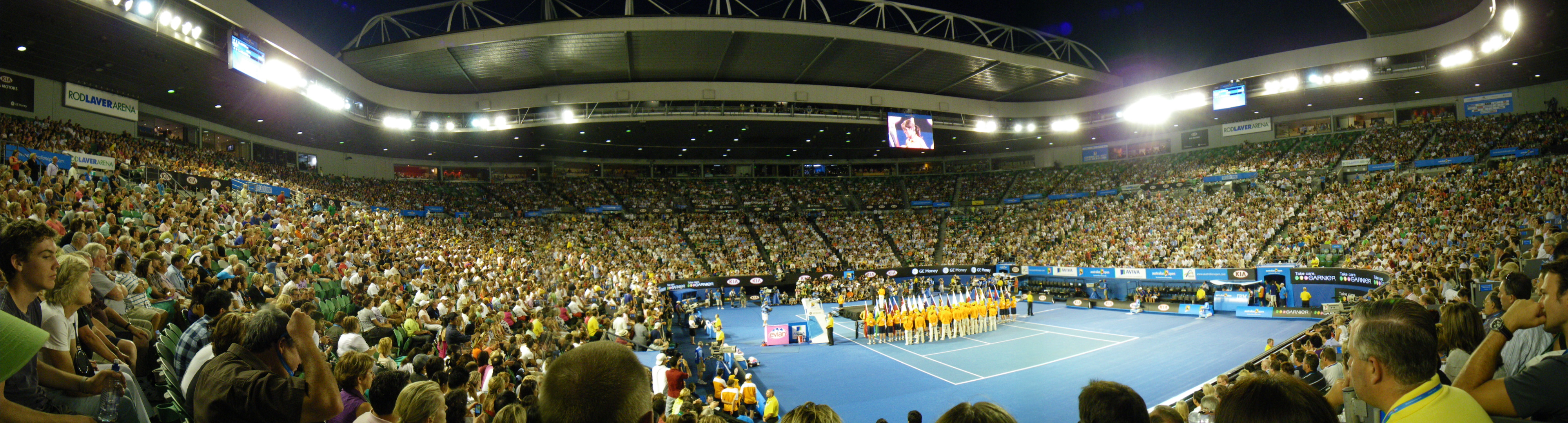 Rod Laver Arena during 2009 Australian Open, Melbourne, Australia.